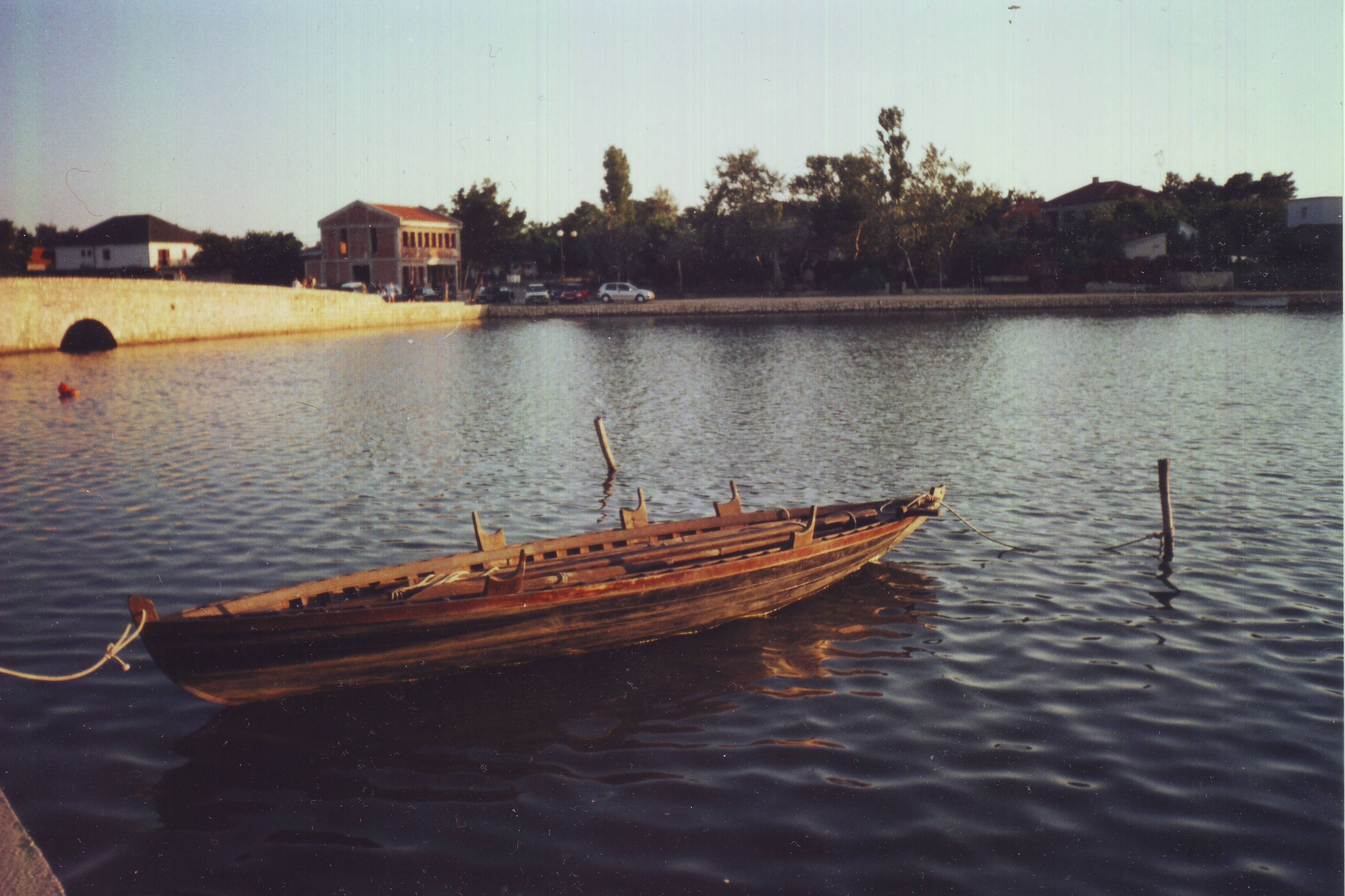 One of oldest croatian boats, Nin, Croatia.